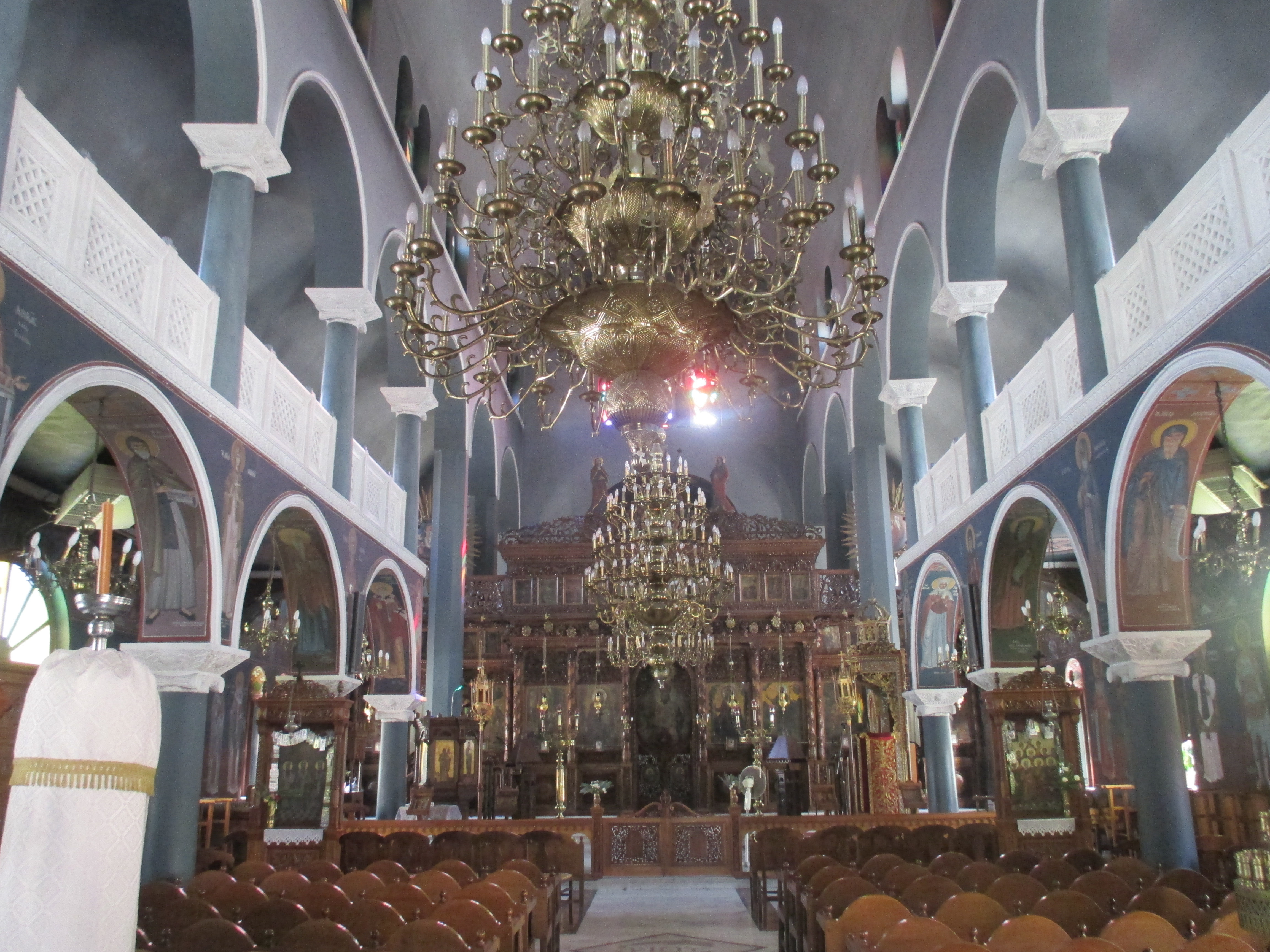 Megali Panagia, Cathedral of Rethymno, Crete, Greece. Interior.